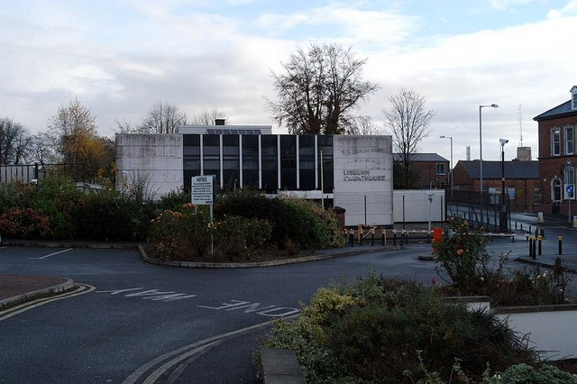 Lisburn Courthouse Lisburn Courthouse photo'd from Lisburn Station carpark.